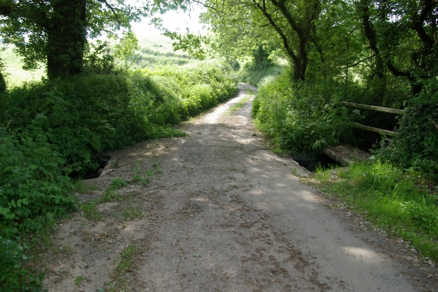 Dry ford, Hay Farm. Dry ford east of Hay Farm, near Quethiock, south east Cornwall. The stream running under the road is called Hay Lake, although there is no lake!